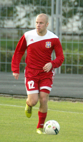 Aleksandr Degterev FC Naftan Novopoltsk